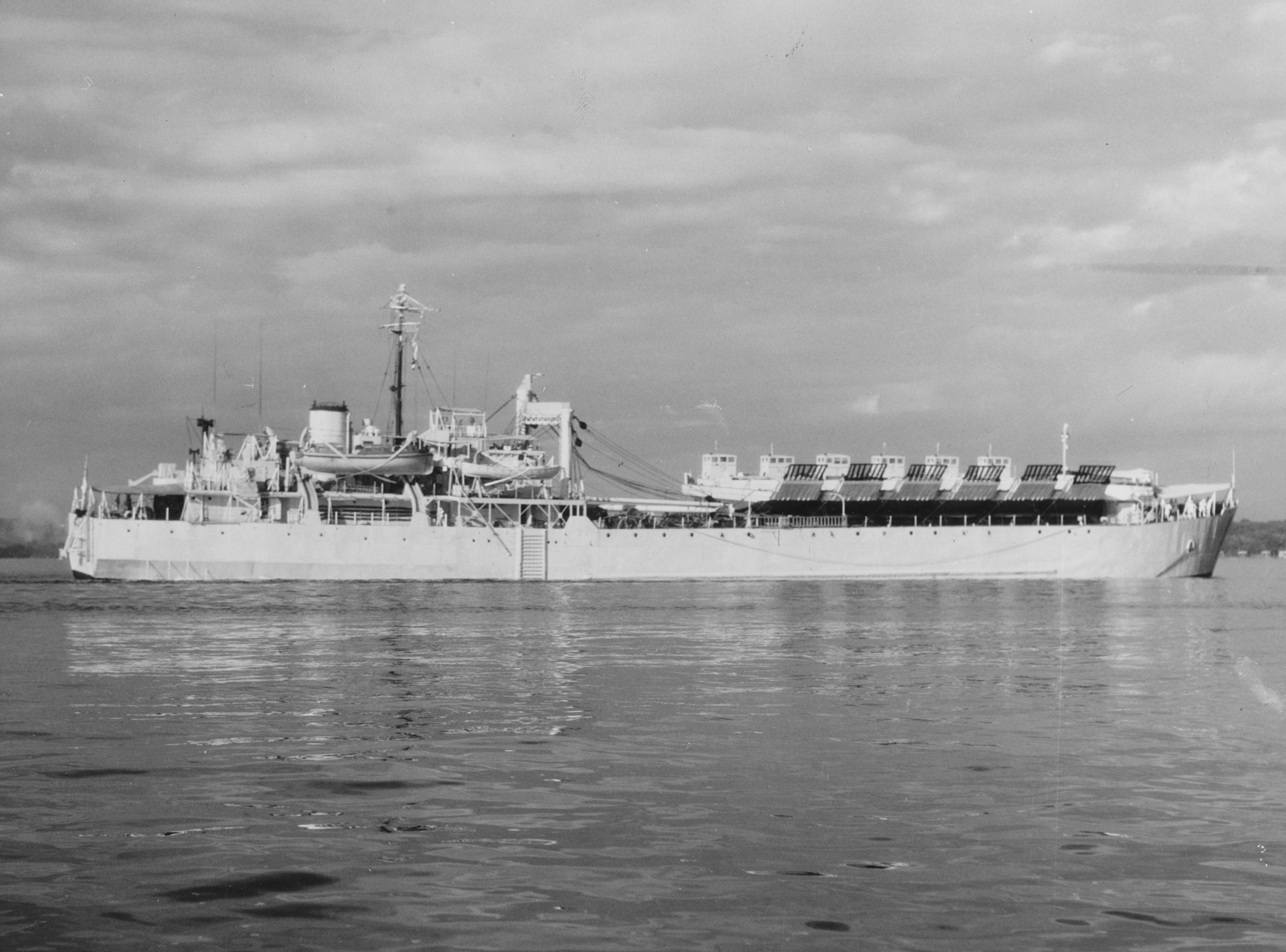 The Royal Navy tank landing ship HMS Messina (L112). Messina was built by Scotts at Greenock, Scotland (UK) and launched 27 April 1945 as LST 3043. She was named HMS Messina in 1947 and paid off on 7 July 1965. She became a store hulk at Porthmouth (UK) and was finally scrapped in 1980. In 1956 HMS Messina was the headquarters and communications ship for Operation Grapple. Note: As no pennant number is visible, the photo could have been taken in the 1940s.